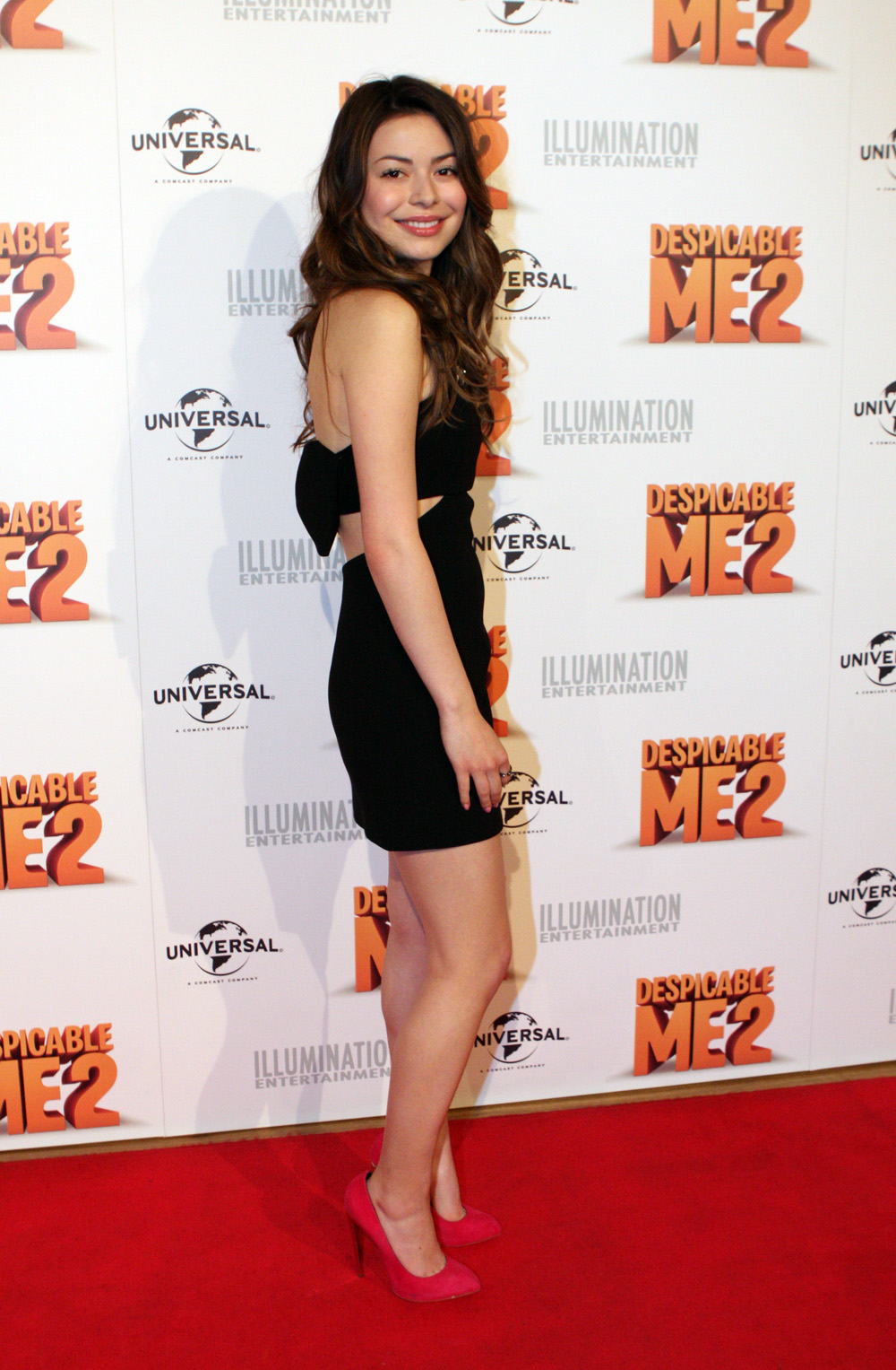 Miranda Cosgrove at Despicable Me 2 red carpet movie premiere at Event Cinemas, Bondi Junction, Sydney, Australia.